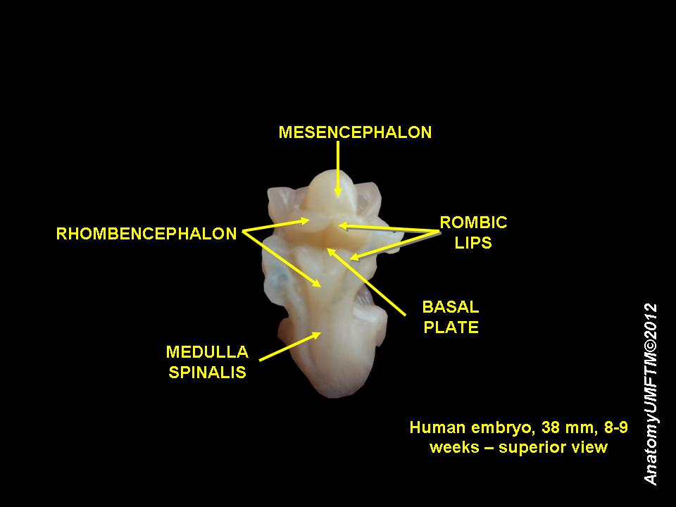 Dissection